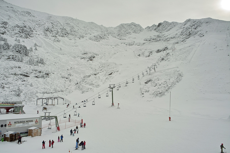 La Pinilla ski resort, Segovia province (Spain).